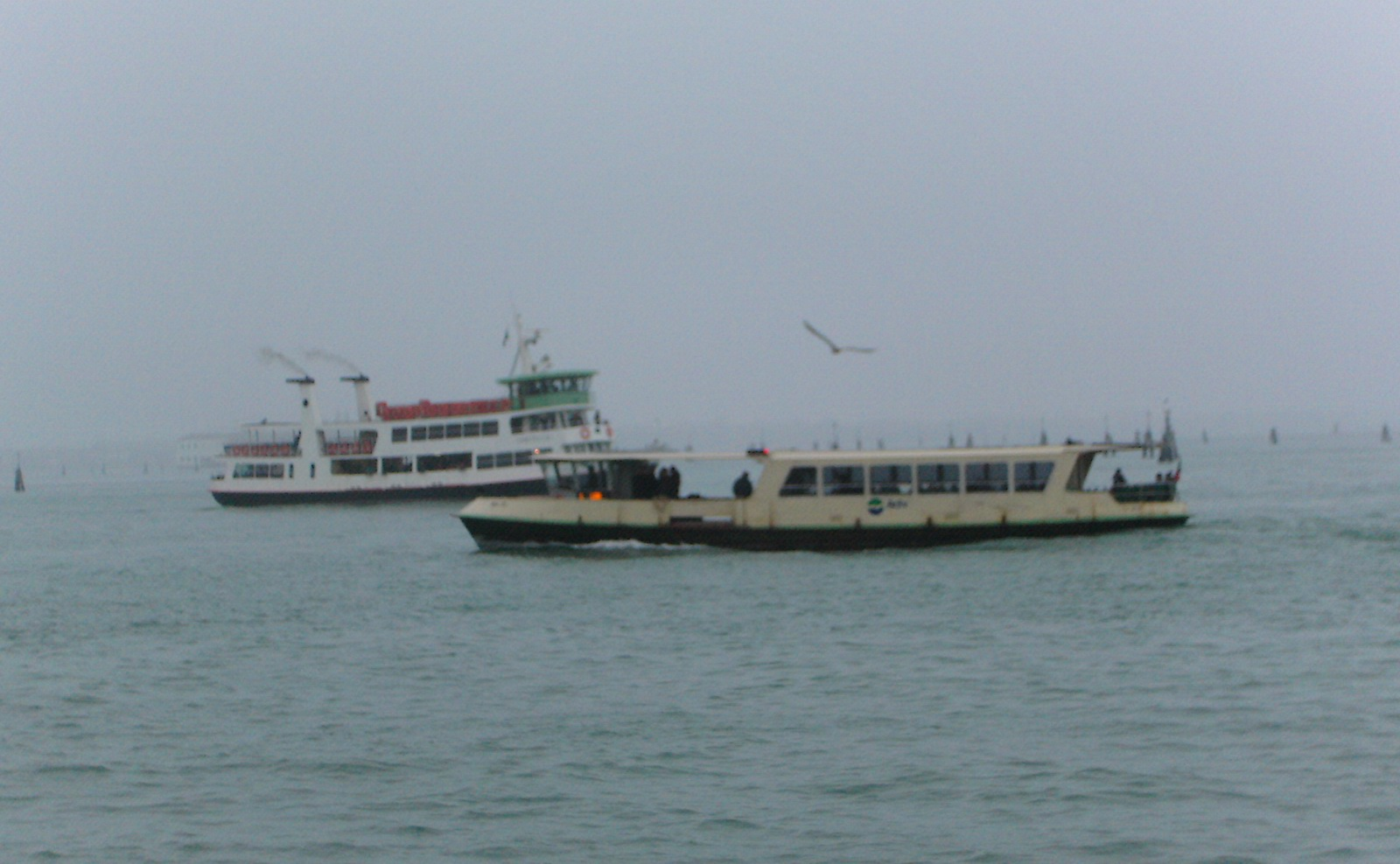 Motonave (motor vessel) Torcello and vapporetto of public service (ACTV) in Venice